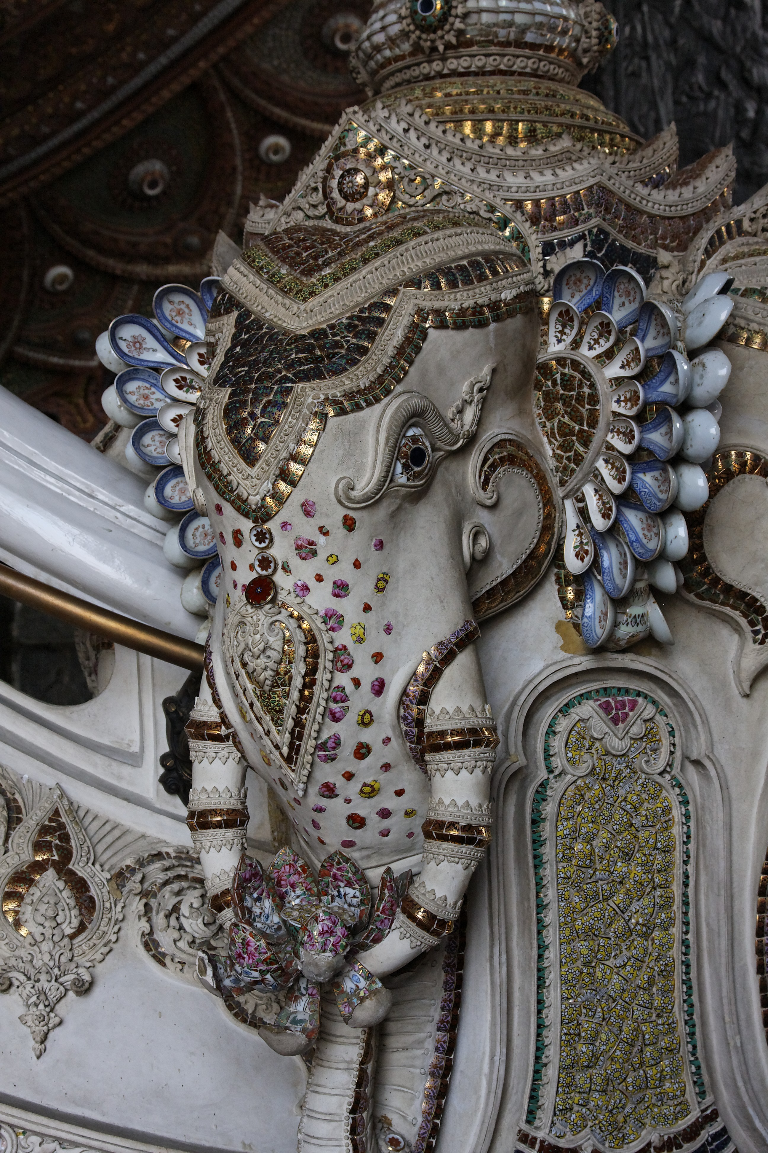 Erawan museum, Bangkok, Thailand